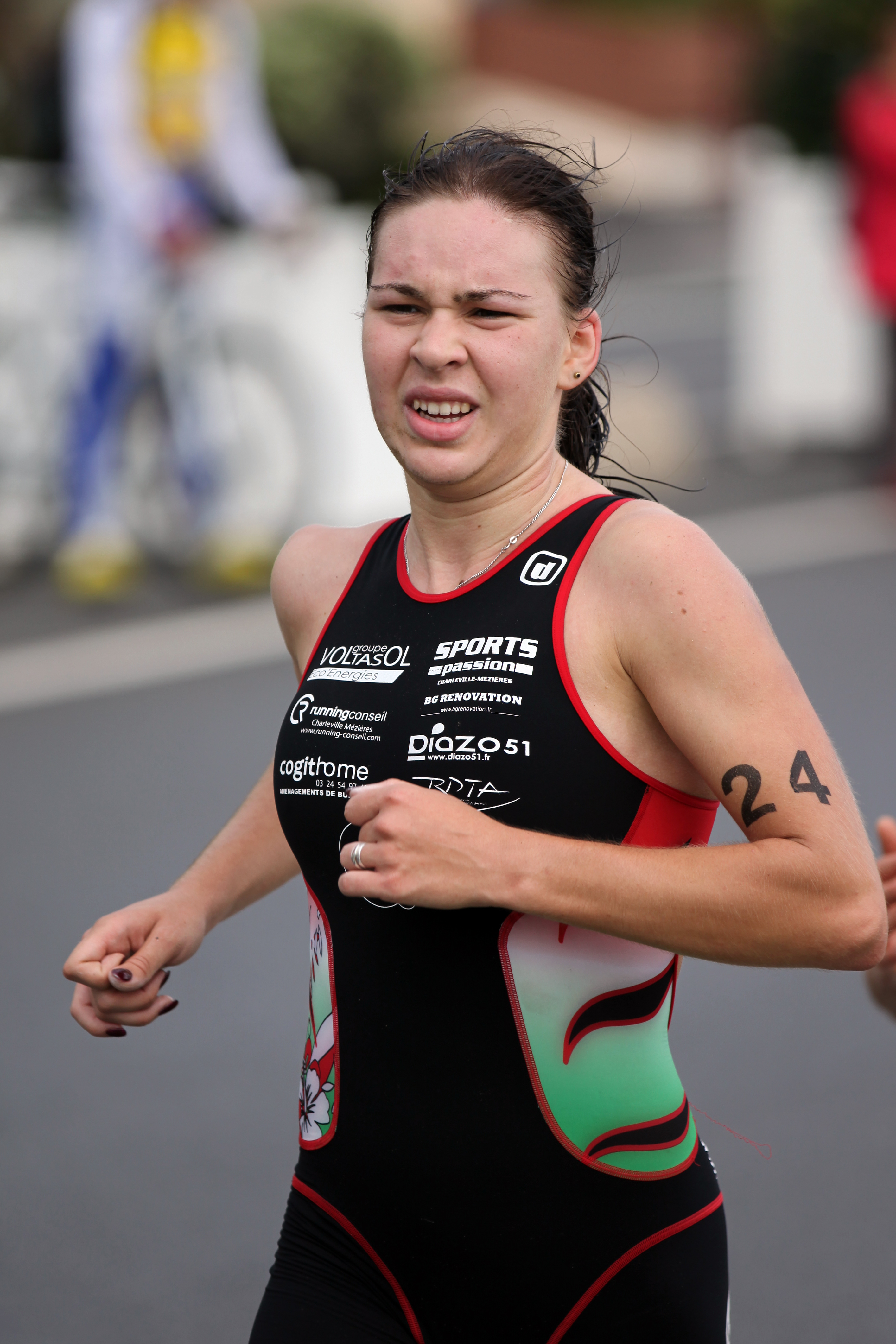 Alexandra Razarenova / Razaryonova (Александра Германовна Разарёнова) at the French Grand Prix de Triathlon, Grand Final in La Baule 2011.